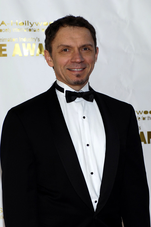 Andreas Deja at the 2006 Annie Awards red carpet at the Alex Theatre in Glendale, California.